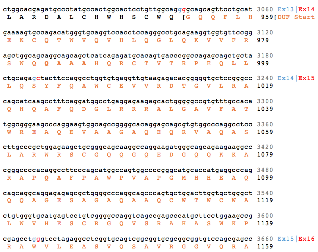 Conceptual translation table without red lines